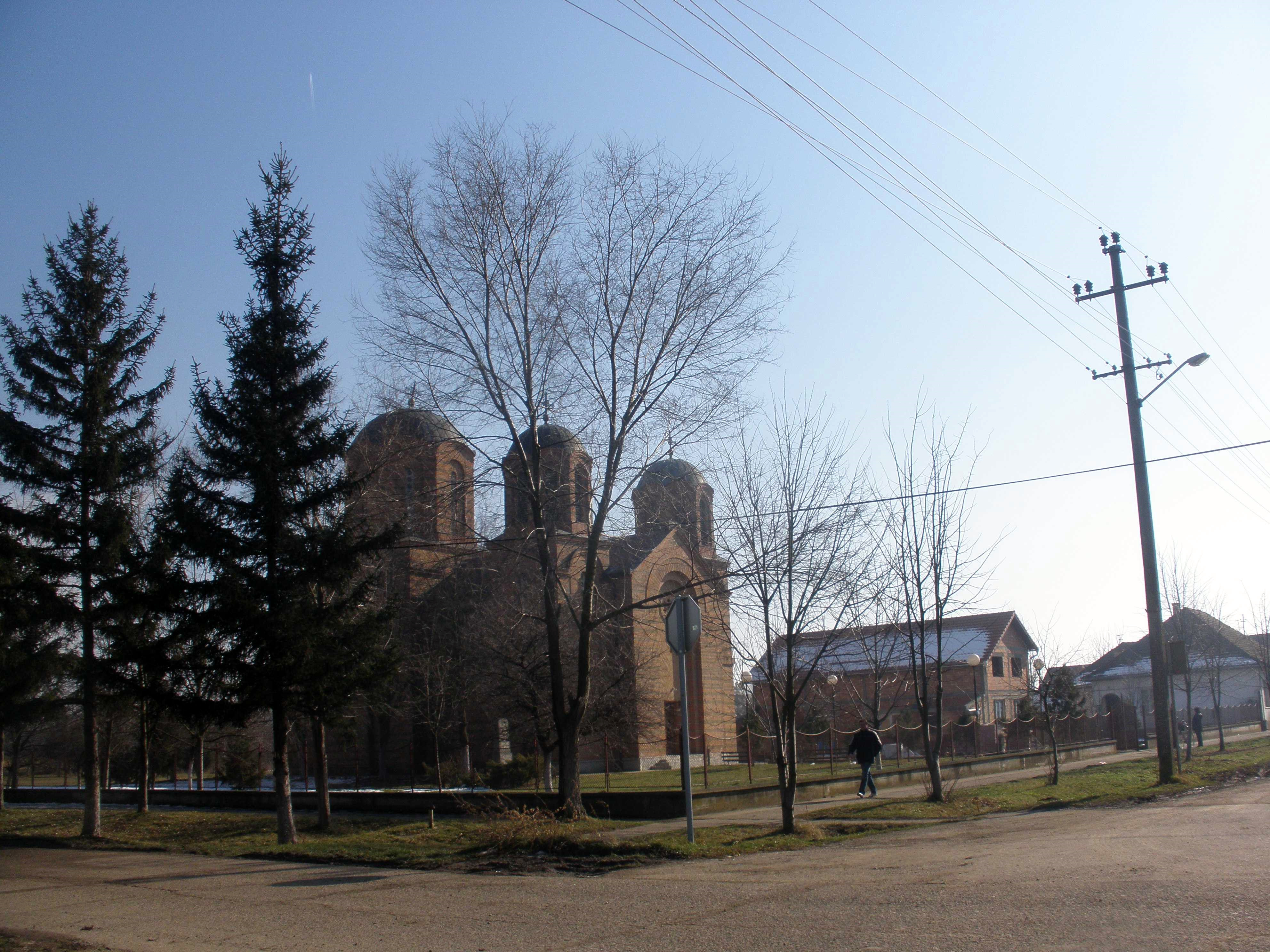 Church in Stajićevo with parochial house and street